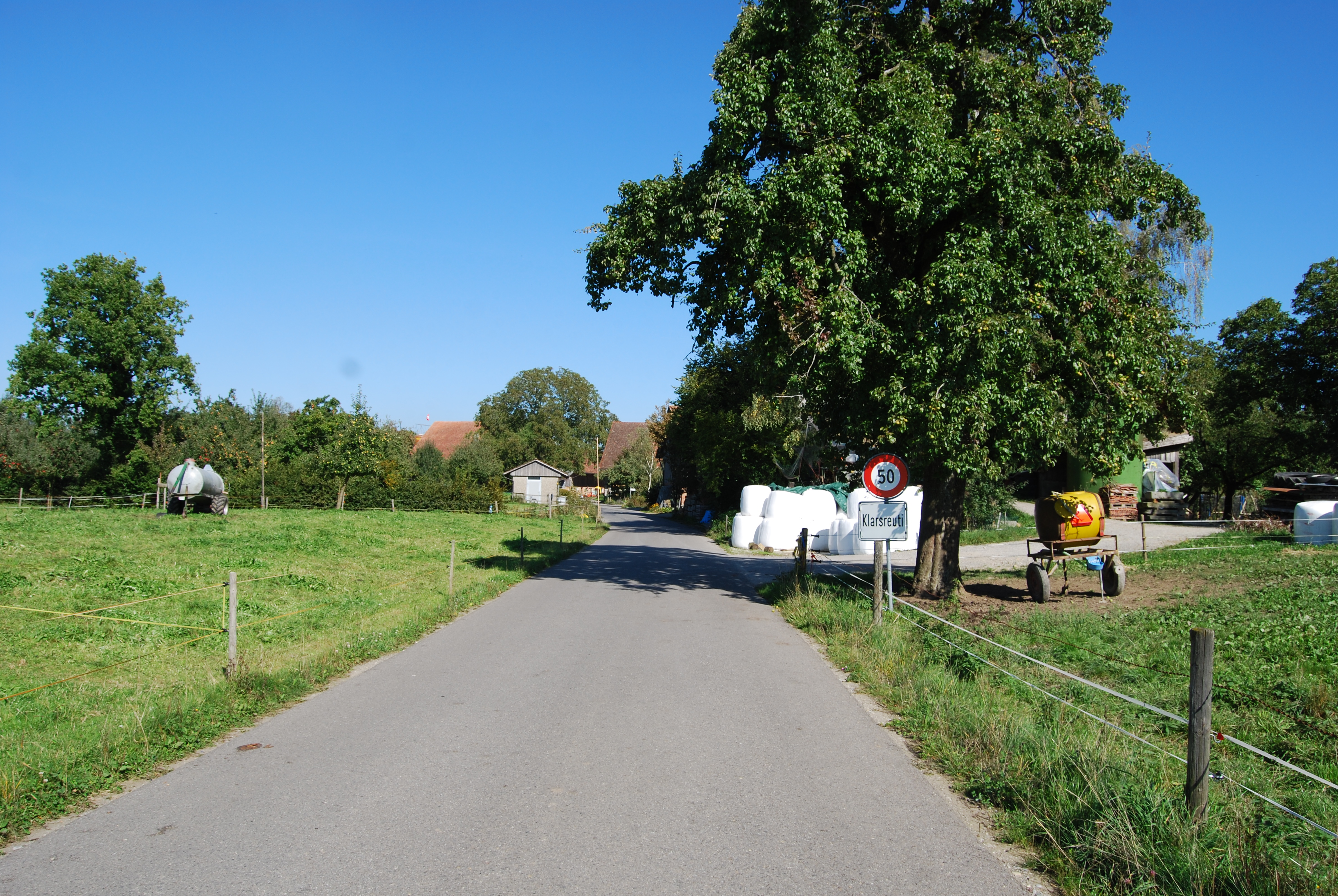 Klarsreuti, municipality of Birwinken, canton of Thurgovia, SwitzerlandEsperanto: Klarsreuti, komunumo Birwinken, Kantono Turgovio, Svislando